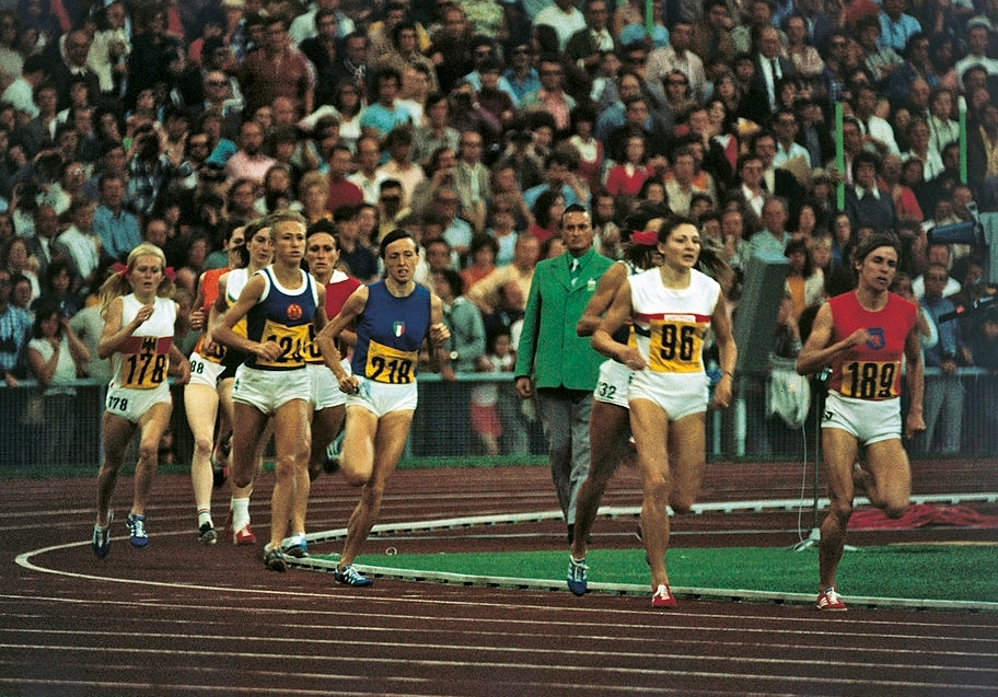 The Italian middle-distance runner Paola Pigni during the 1500 meters final race. She eventually finished third and won a bronze medal. Next to her, from the left, Ilja Keizer-Laman and Berny Boxem-Lenferink (Holland), Jenny Orr (Australia), Karin Burneleit (East Germany), Tamara Pangelova (USSR), Gunhild Hoffmeister (East Germany) e Sheila Taylor-Carey (UK). On the right, hardly visible, the winner of the race, Lyudmila Bragina (USSR). Munich, September 9, 1972. 7 Jennifer Orr 96 Sheila Carey, 124 Karin Krebs, 132 Gunhild Hoffmeister, 178 Ellen Tittel, 188 Berny Boxem, 189 Ilja Keizer-Laman, 218 Paola Pigni, xx5 Tamara Pangelova.